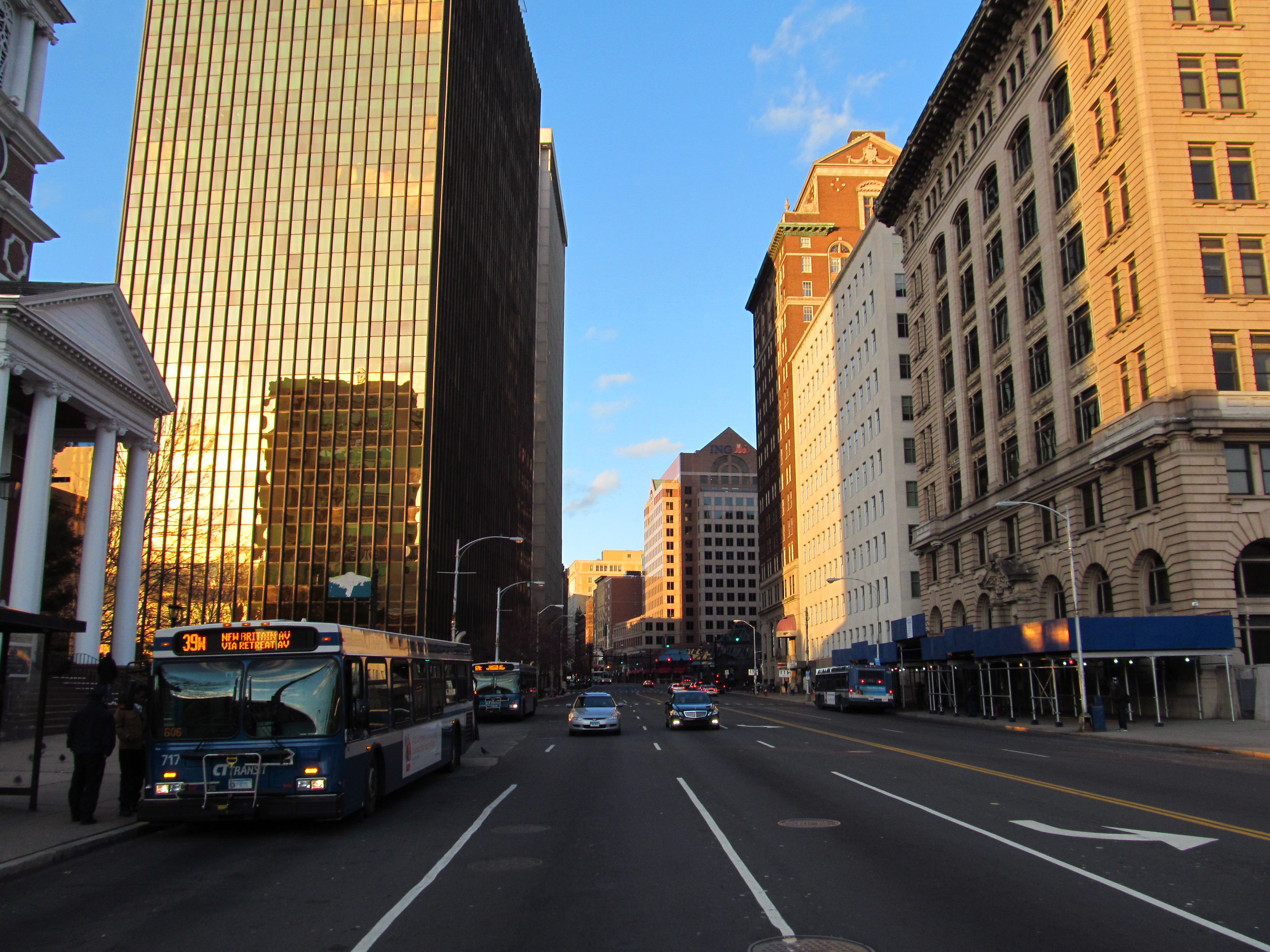 Main Street, Hartford Connecticut